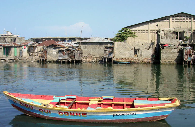 A boat in the area of Shada, Cap-Haitien. A very dense slum lies behind and overhung toilets can be seen on the river.